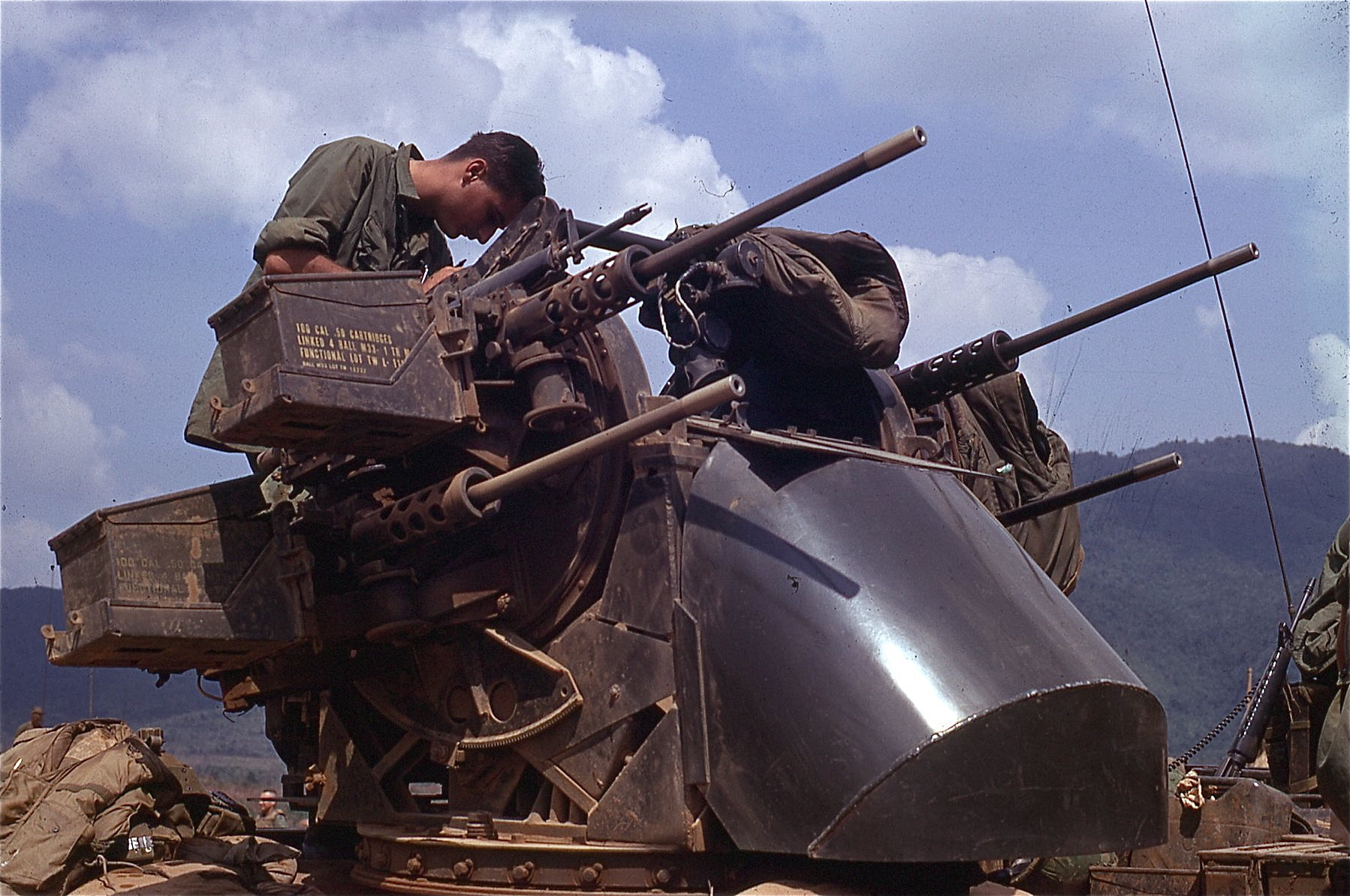 Quad 0.50 used for convoy security along Route 9